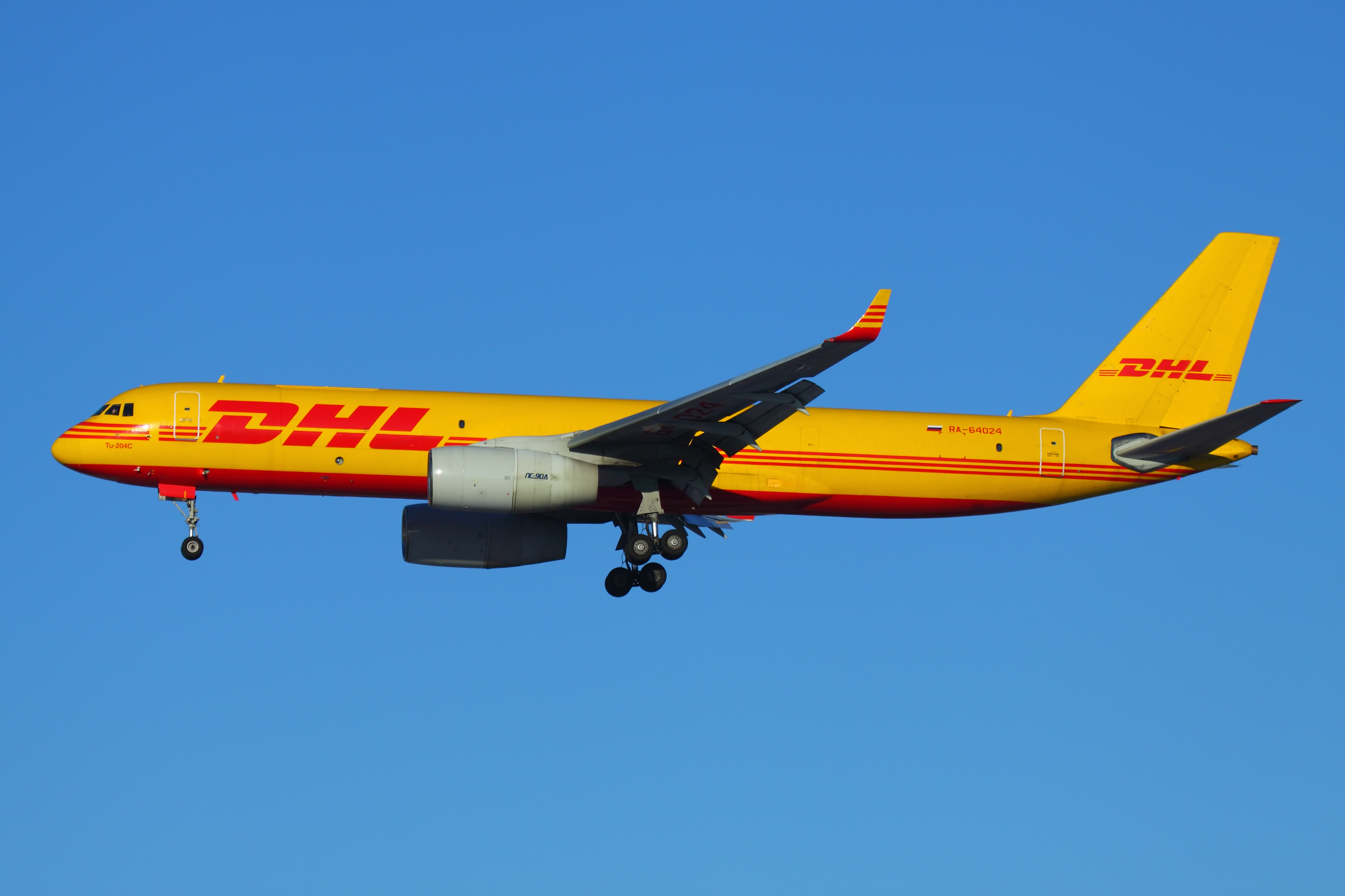 Tupolev Tu-204C reg. RA-64024 is the only Tu-204 featuring the full DHL color scheme